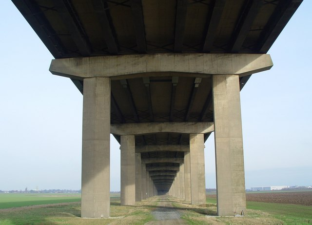 The Ouse Bridge, East Riding of Yorkshire, England.From the embankment of the river Ouse. The bridge carries the 6 lane motorway, the M62.